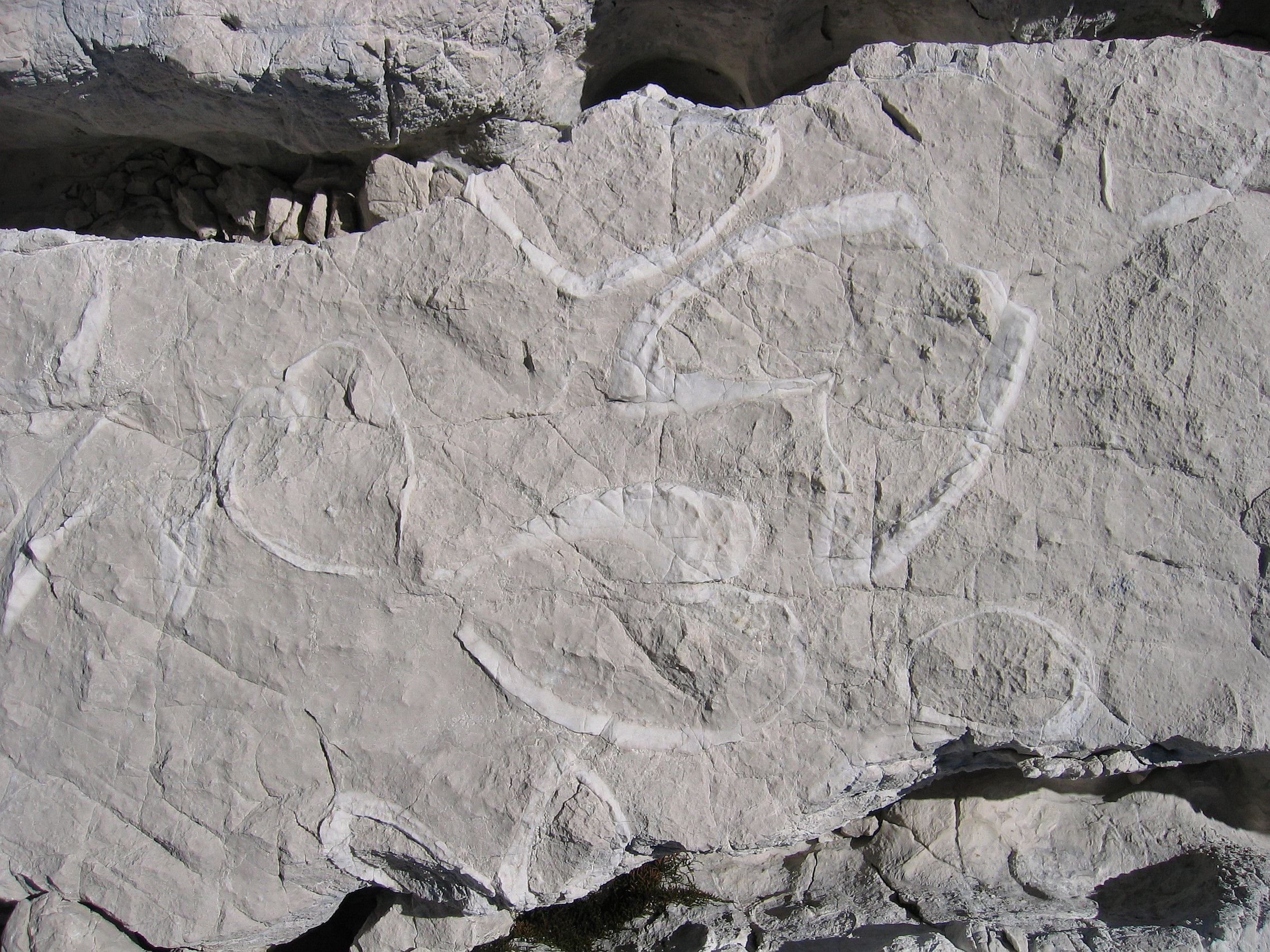 Dachsteinkalk with fossil Bivalvia (probably Conchodon infraliasicus) Totes Gebirge, Austria